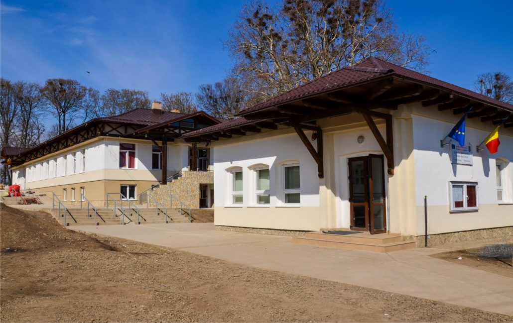 school of hantesti